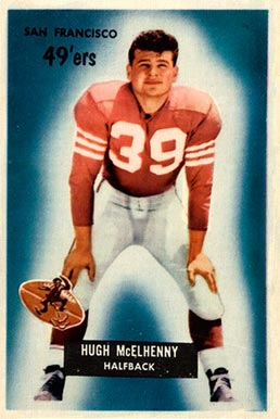 American football halfback Hugh McElhenny depicted with the San Francisco 49ers on a 1955 Bowman Gum football card